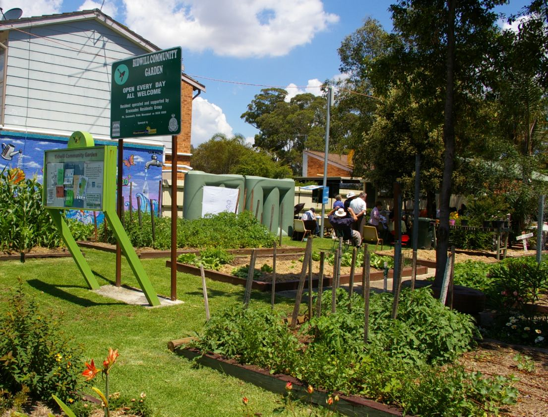 I made and edited this image